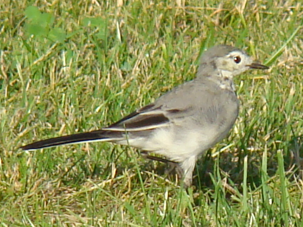 Photo of the juvenile White Wagtail (Motacilla alba) in in Raizgiai, Siauliai, Lithuania.